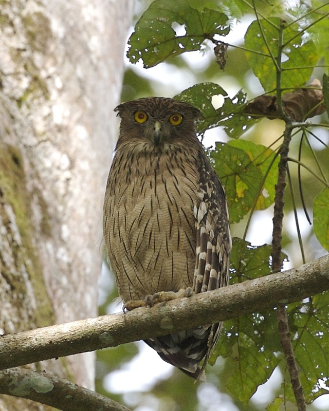 Ketupa zeylonensis Brown Fish-Owl (Ketupa zeylonensis) Location: Thattekad, Kerala, India Date: October 9, 2007 _Q0S0095